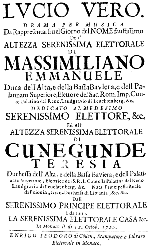 Pietro Torri - Lucio Vero - titlepage of the libretto - Munich 1720